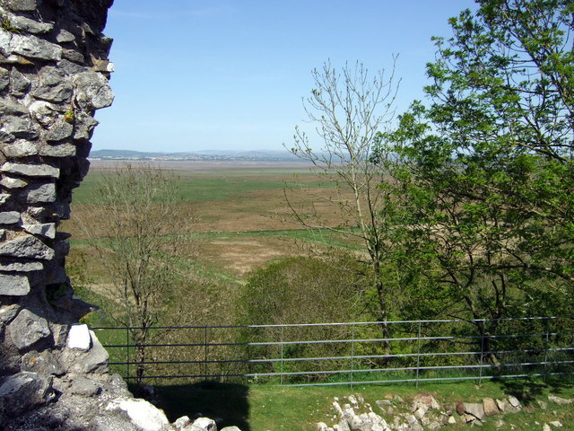 The salt marshes below Weobley castle Weobley is a C14 fortified manor house perched on the limestone escarpment above the marshes of the Llwchwr estuary which would have supplied the Norman lords with grazing, hunting and fishing resources, directly and via tenants' tributes.